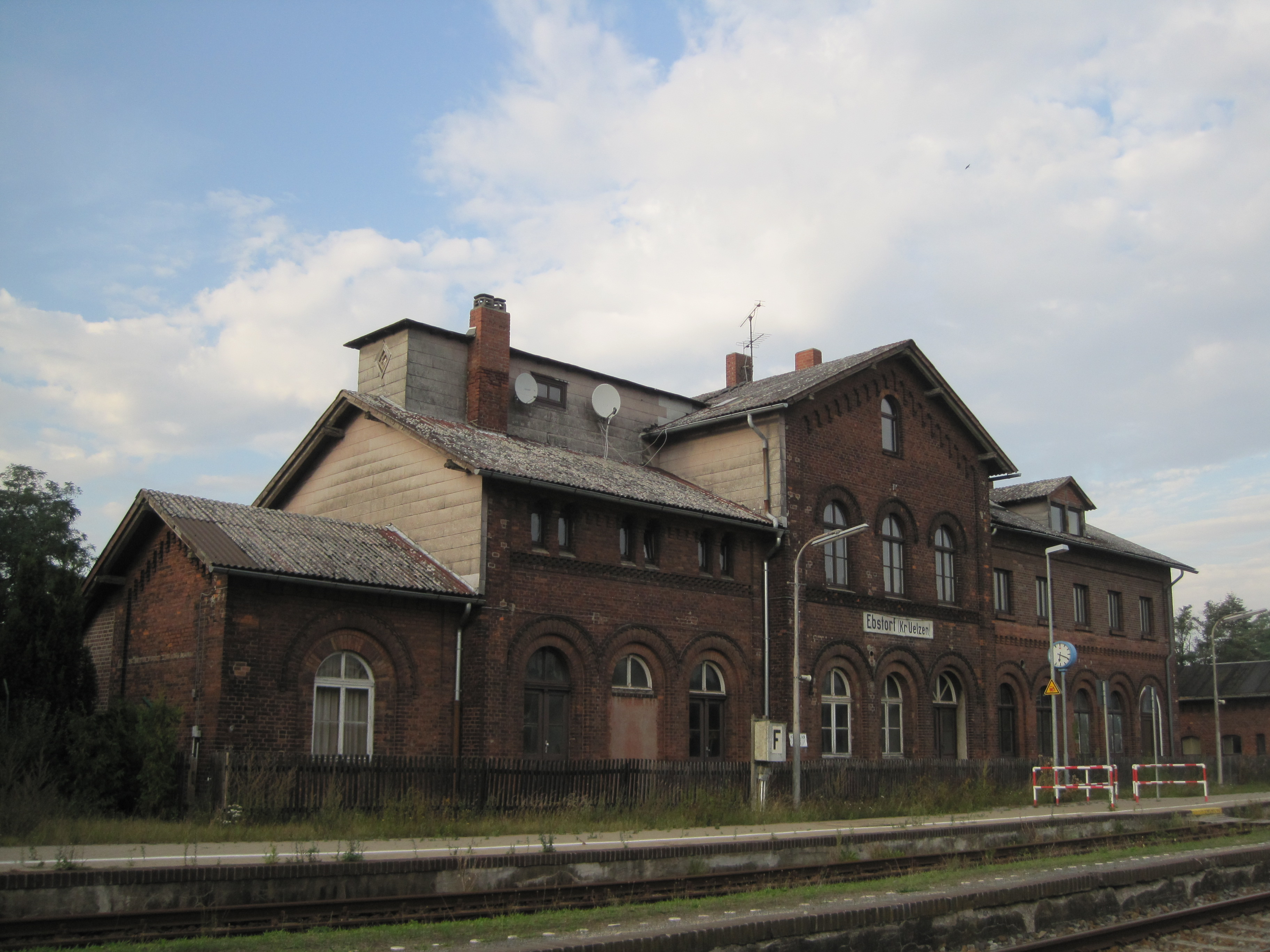 Train station, Ebstorf, Germany